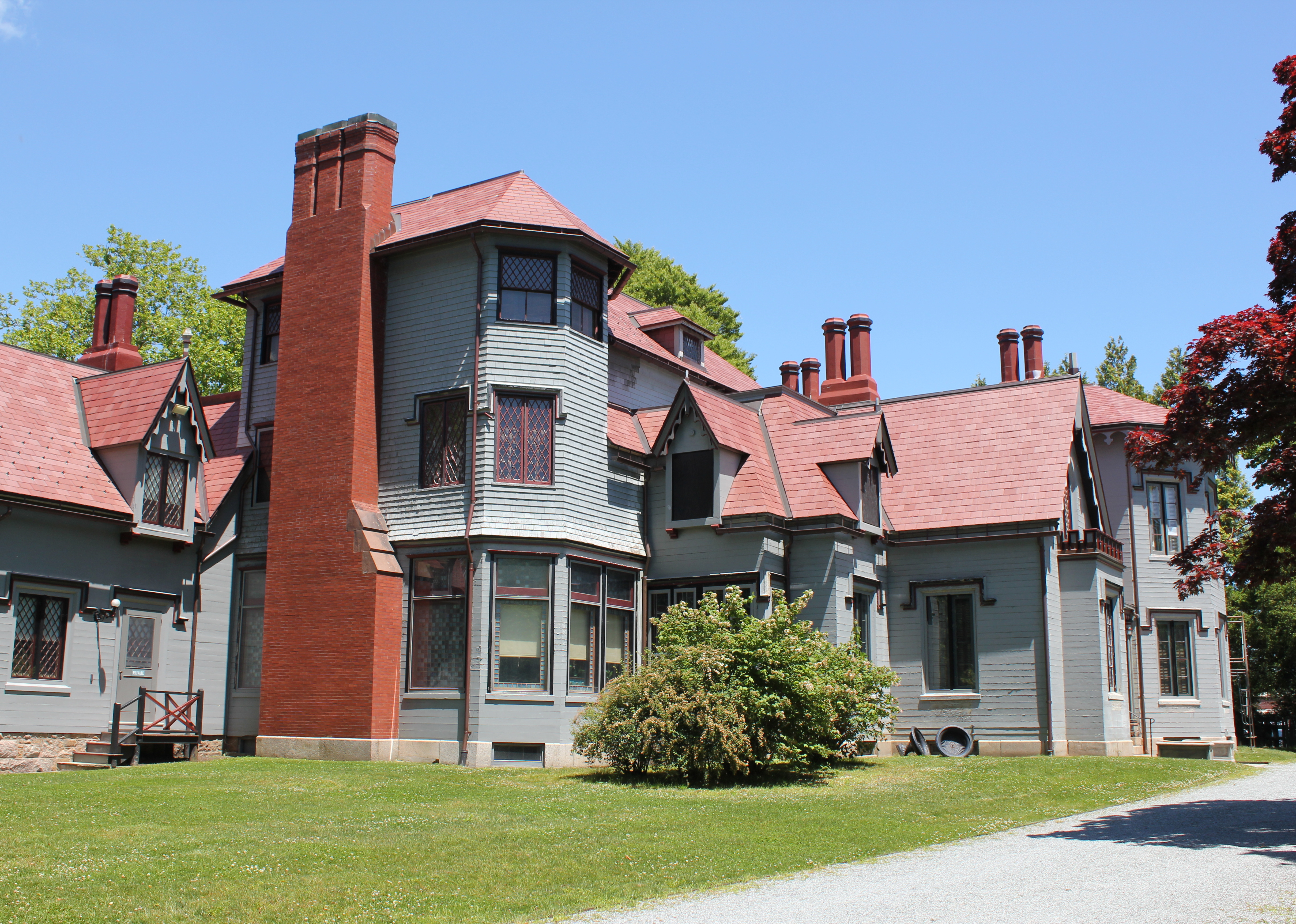 Kingscote in Newport, RI, on June 14, 2018